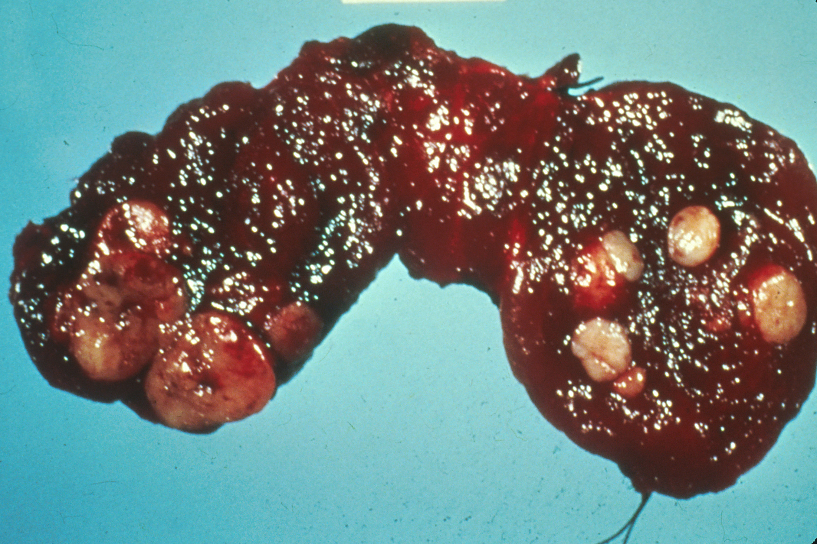 Human thyroid with cancer nodules